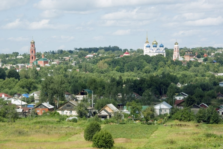 Bolhov - a view from the south bank of Nugr